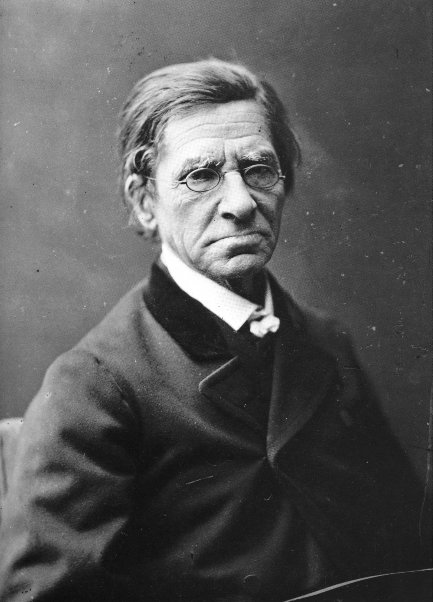 Photography of Émile Littré by Félix Nadar